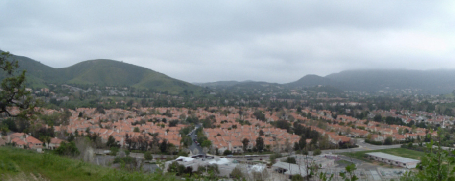 View of the small "valley" located where Lindero Canyon Road and Kanan Road intersect.